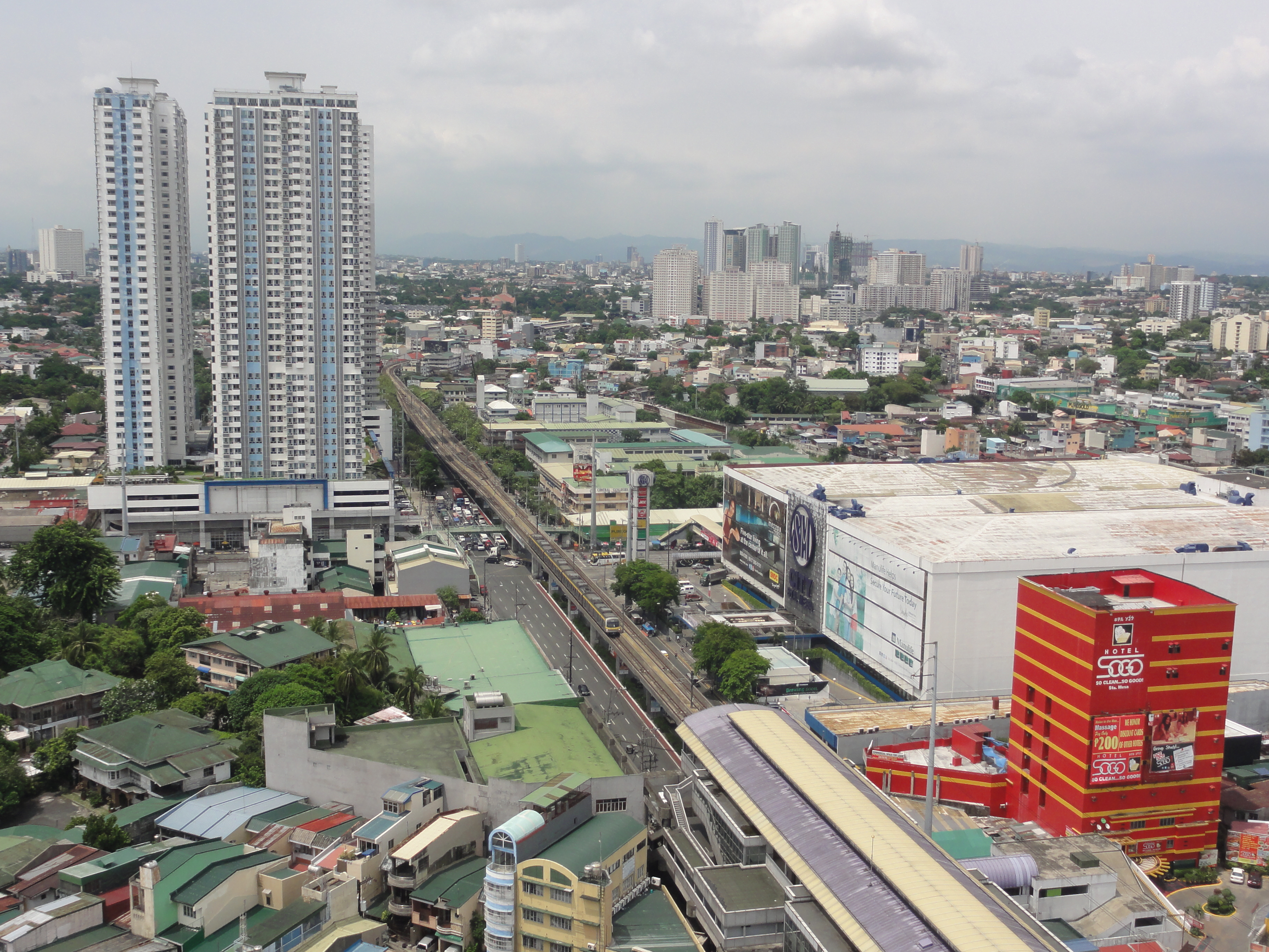 Top shot of Aurora Boulevard in Quezon City, approaching Santa Mesa District in Manila. Also visible in the shot are SM City Santa Mesa shopping mall and an elevated train station. Shot from the roof deck of Sorrel Residences, Santa Mesa, Manila.